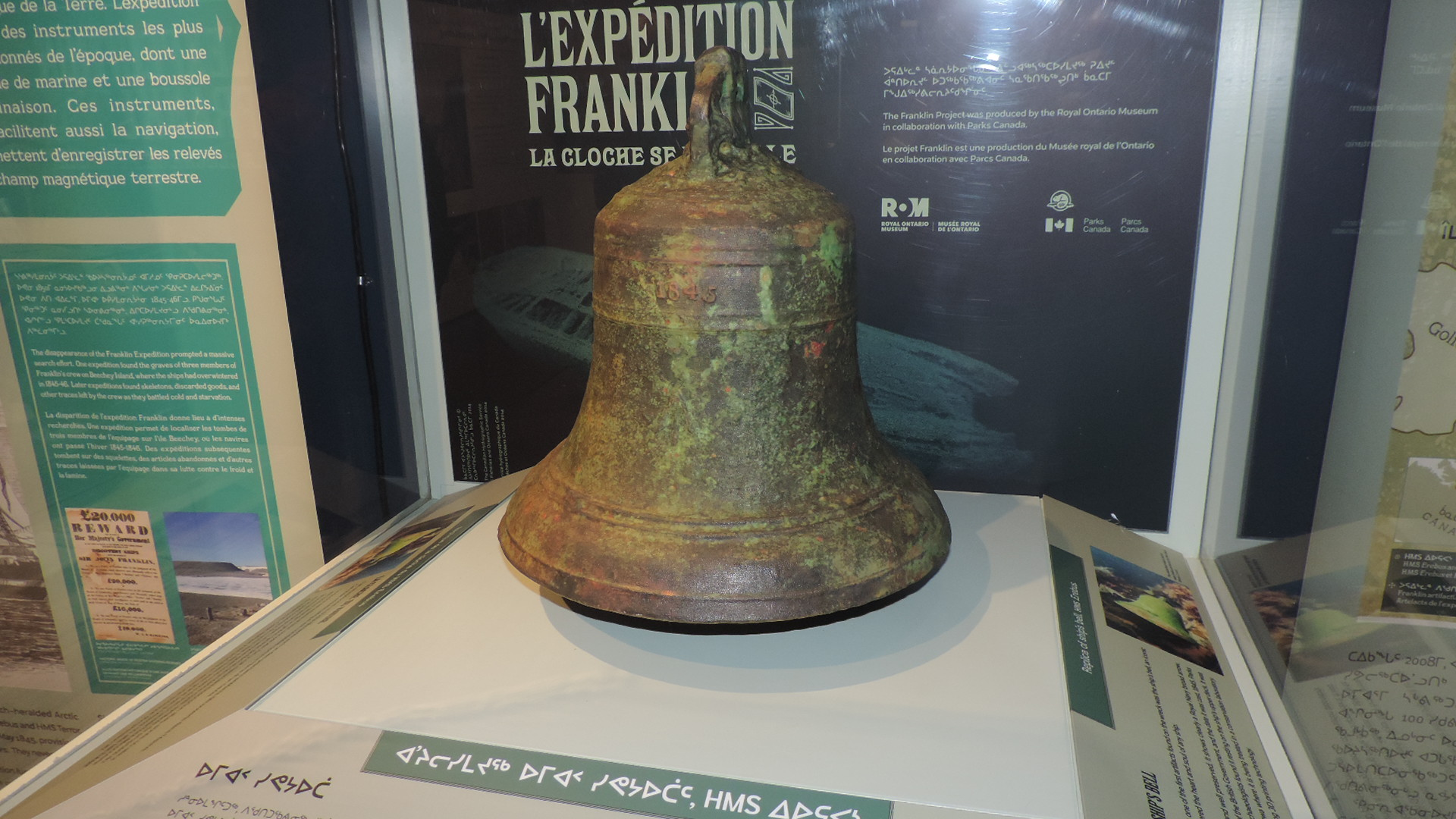 Ship's bell recovered from the HMS Erebus from Frankin's lost expedition, Nattilik Heritage Centre, Gjoa Haven, September 2019. The year 1845 is visible near the top of the bell.